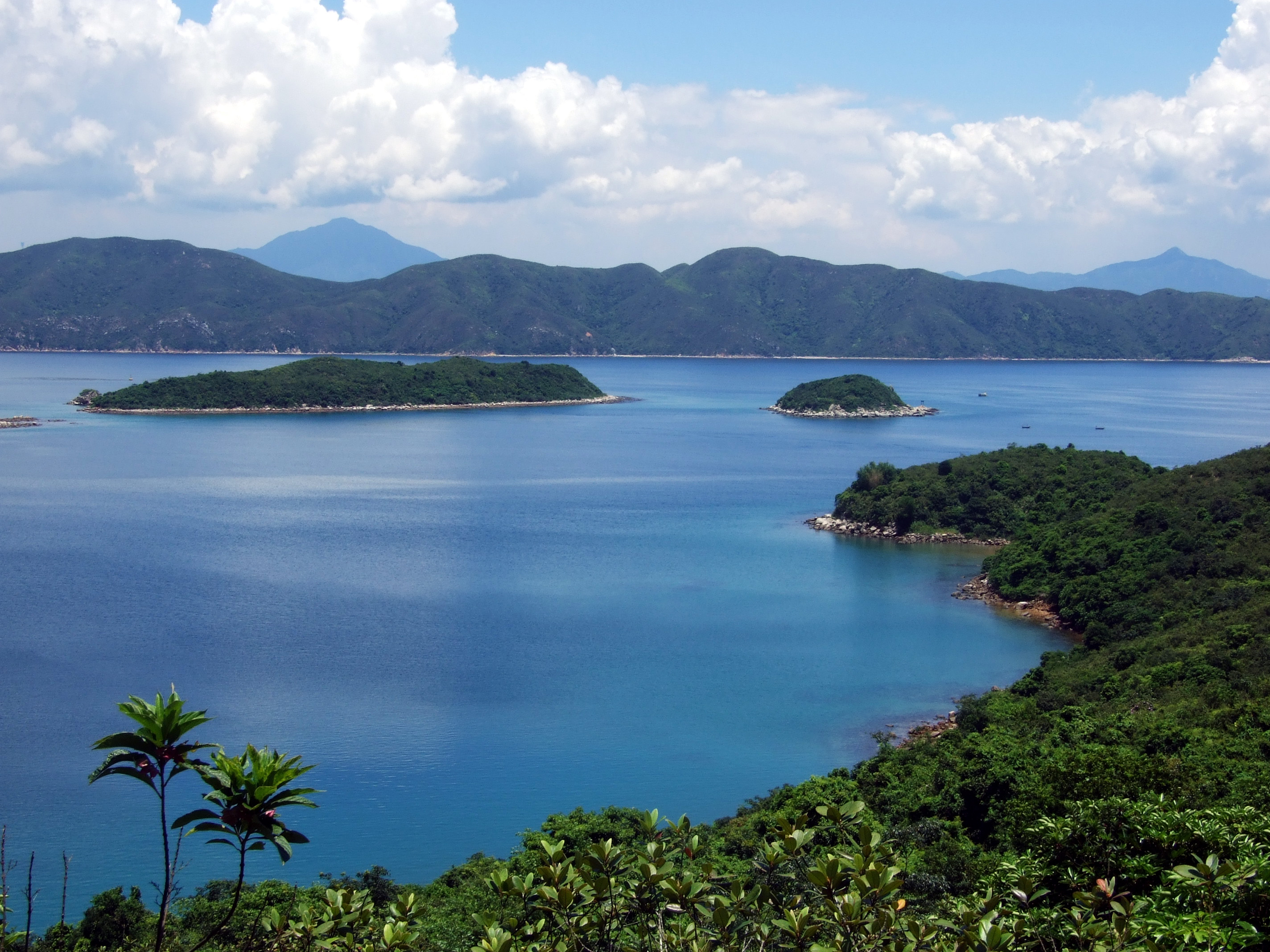 Sam Po Shek, Mo Chau and Flat IslandThe mountain in the background is Wutong Mountain, located in Shenzhen.